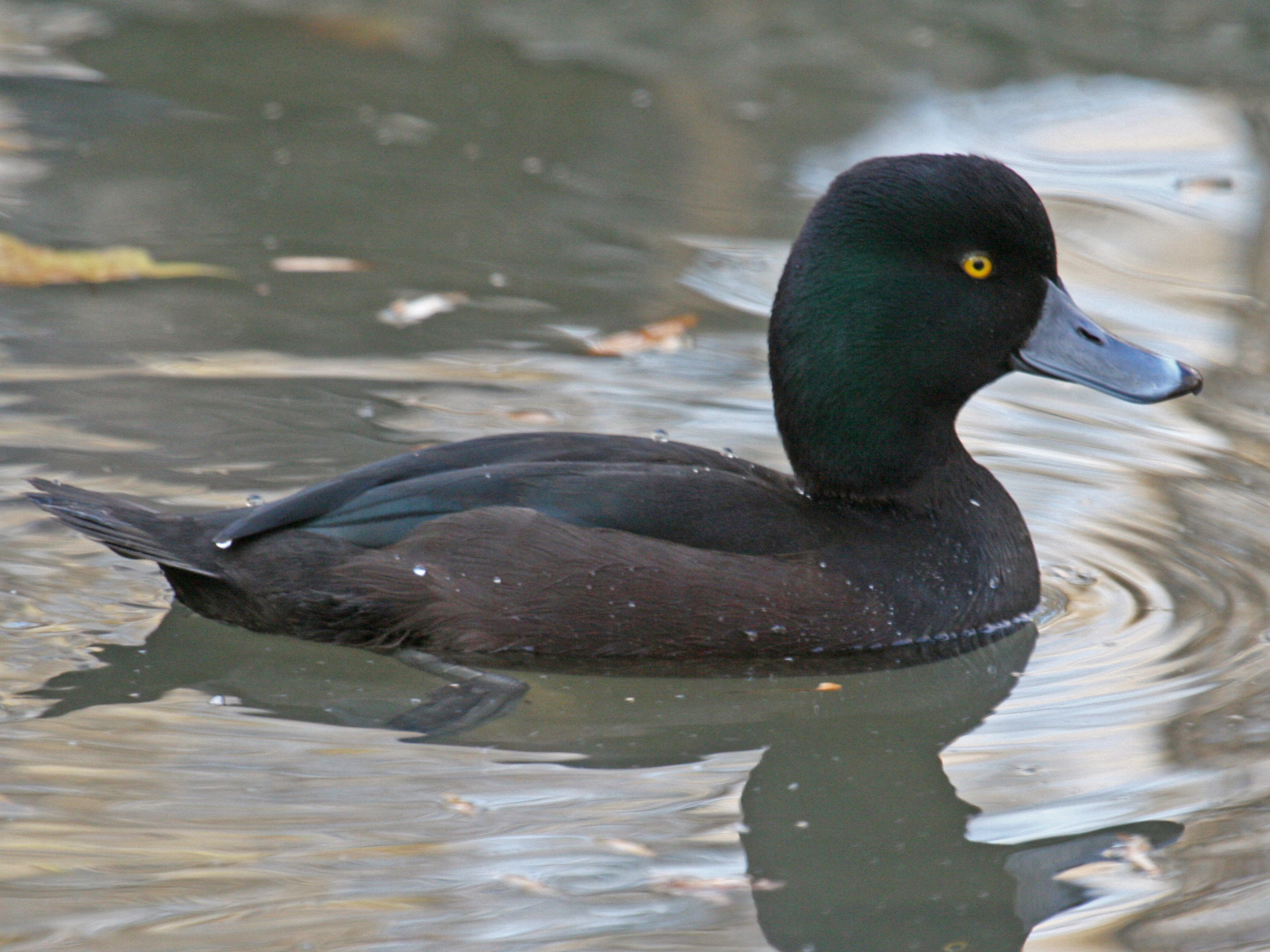 New Zealand Scaup (Aythya novaeseelandiae) at Sylvan Heights Waterfowl Park in Scotland Neck, North Carolina.